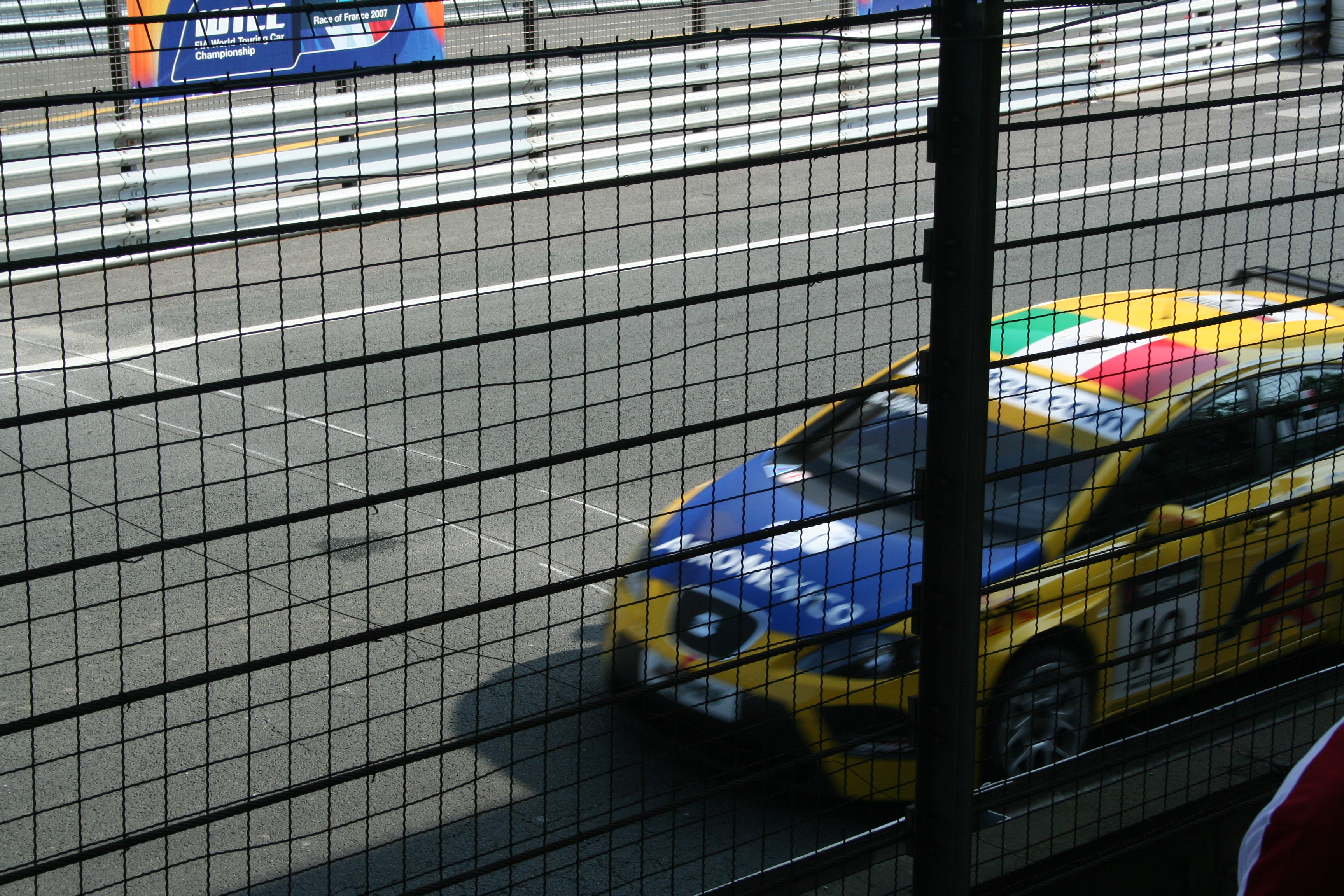 Michel Jourdain, Jr. in a SEAT León for SEAT Sport in the 2007 FIA WTCC Race of France at Pau Circuit. Original description from flickr: img 040.jpg